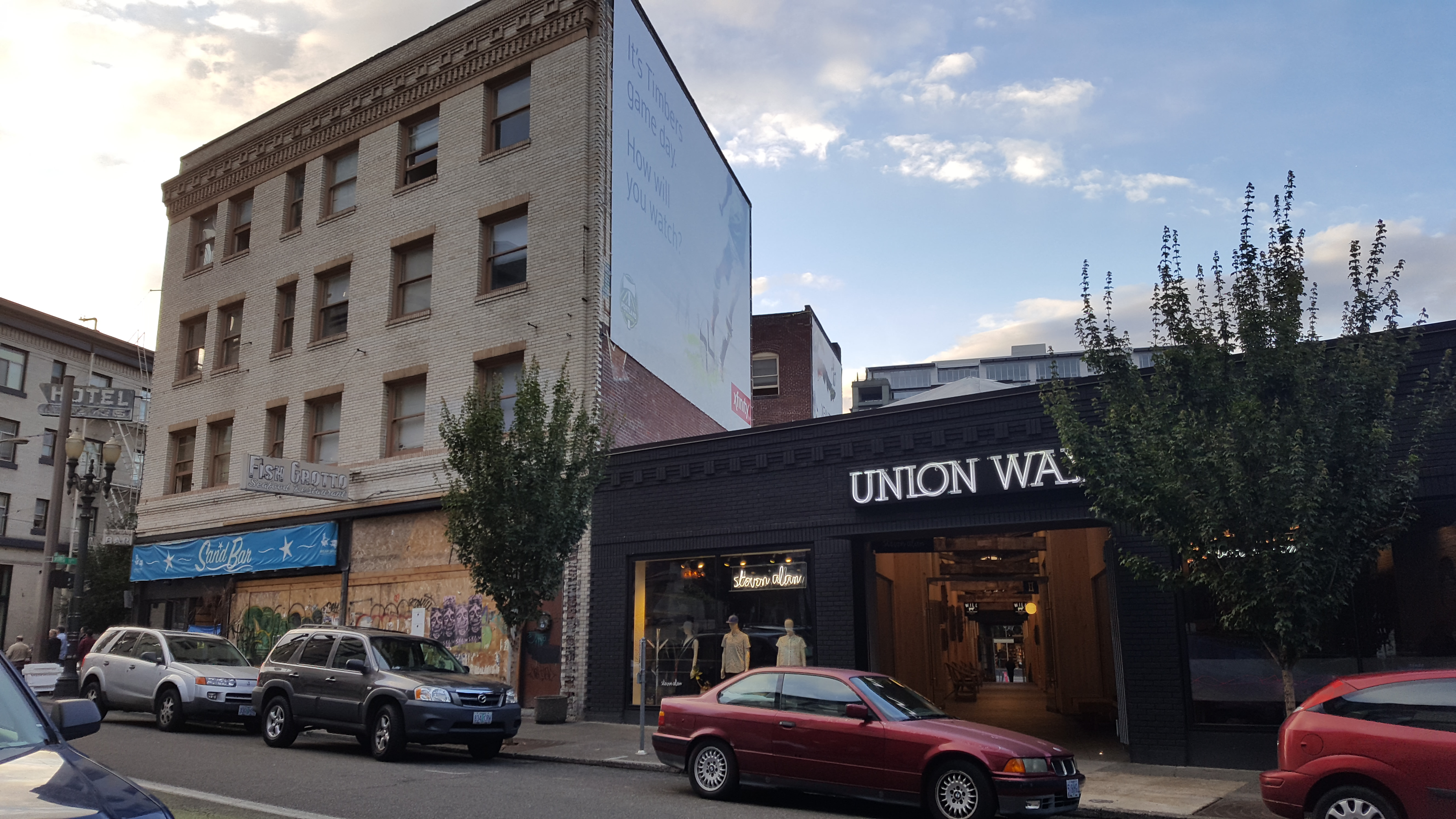 Union Way